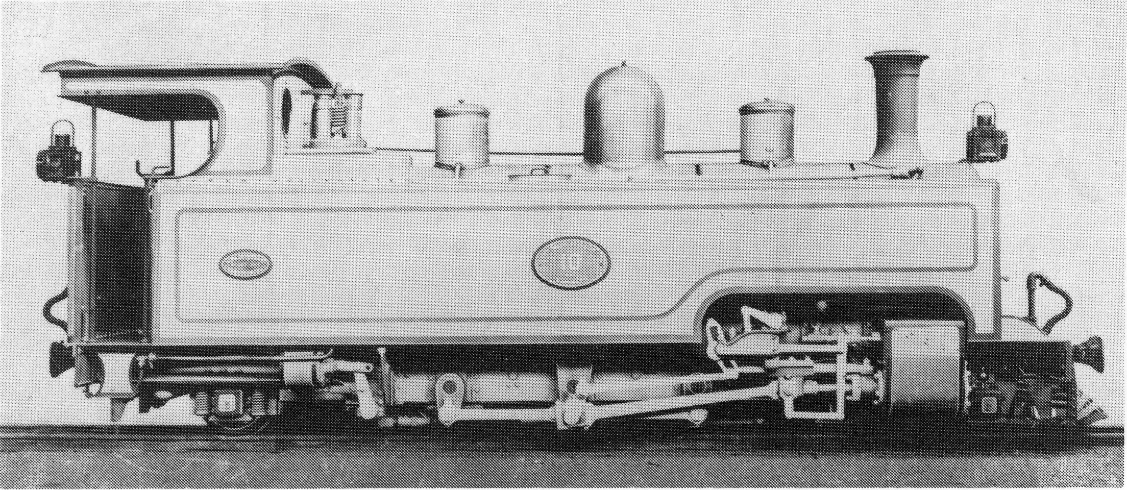 SAR Class NG4 10 (4-6-2T)